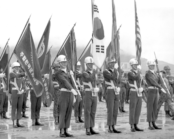 Color guards displays flags at ceremonies commemorating third anniversary of Korean forces in Vietnam